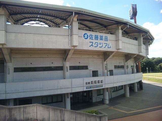 Kashiharakouen-Baseball stadium